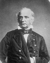 Edward Dickinson Baker (February 24, 1811 – October 21, 1861) was an English-born American politician, lawyer, military leader.